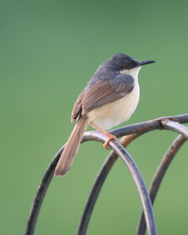 Ashy Prinia (Prinia socialis) ssp Prinia socialis socialis Powai, Mumbai, India September 25, 2005